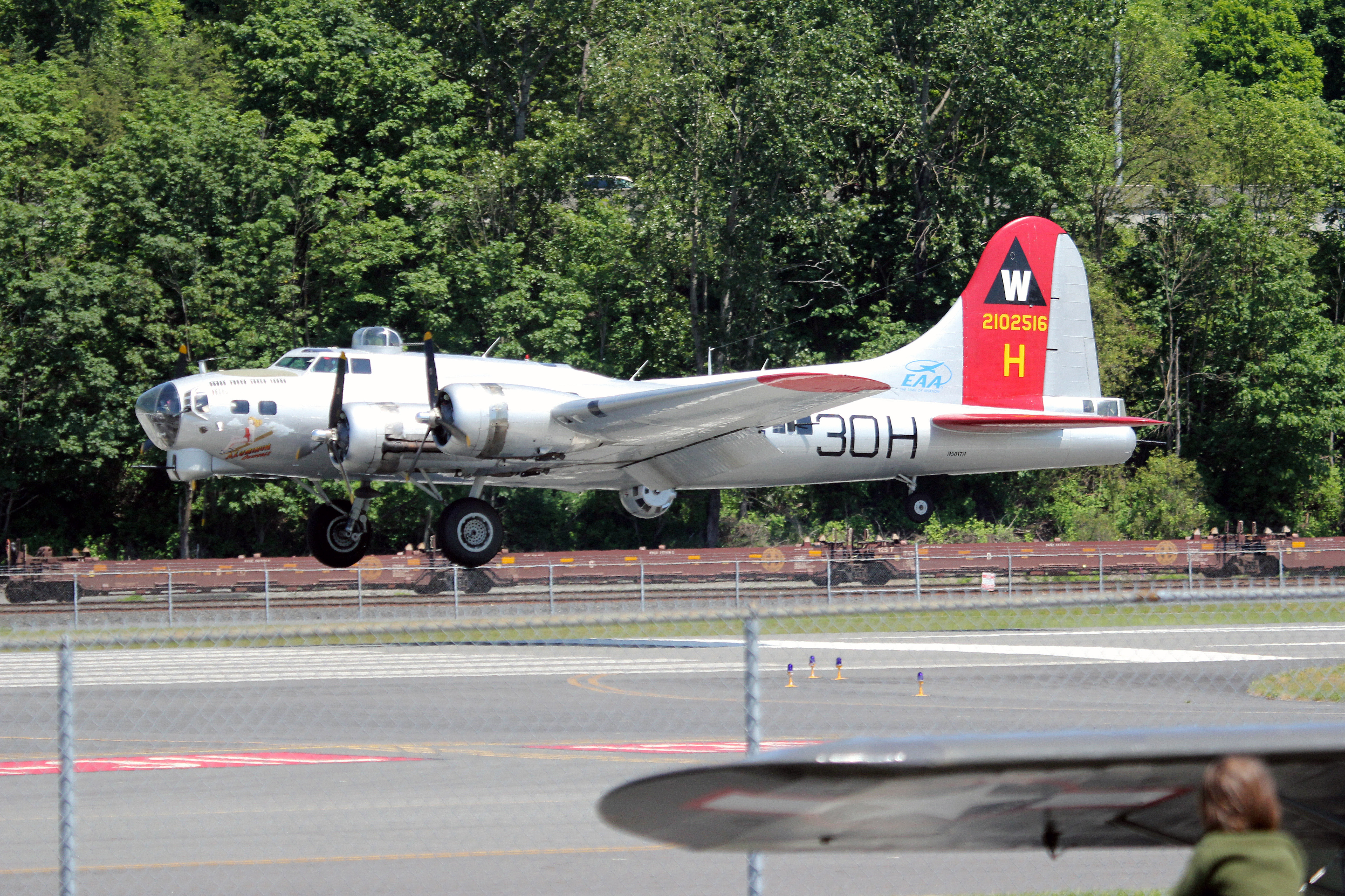 Boeing B-17 "Aluminium Overcast" landing at KBFI